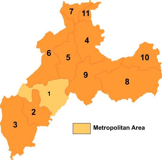 Map of Zhaotong in Yunnan province